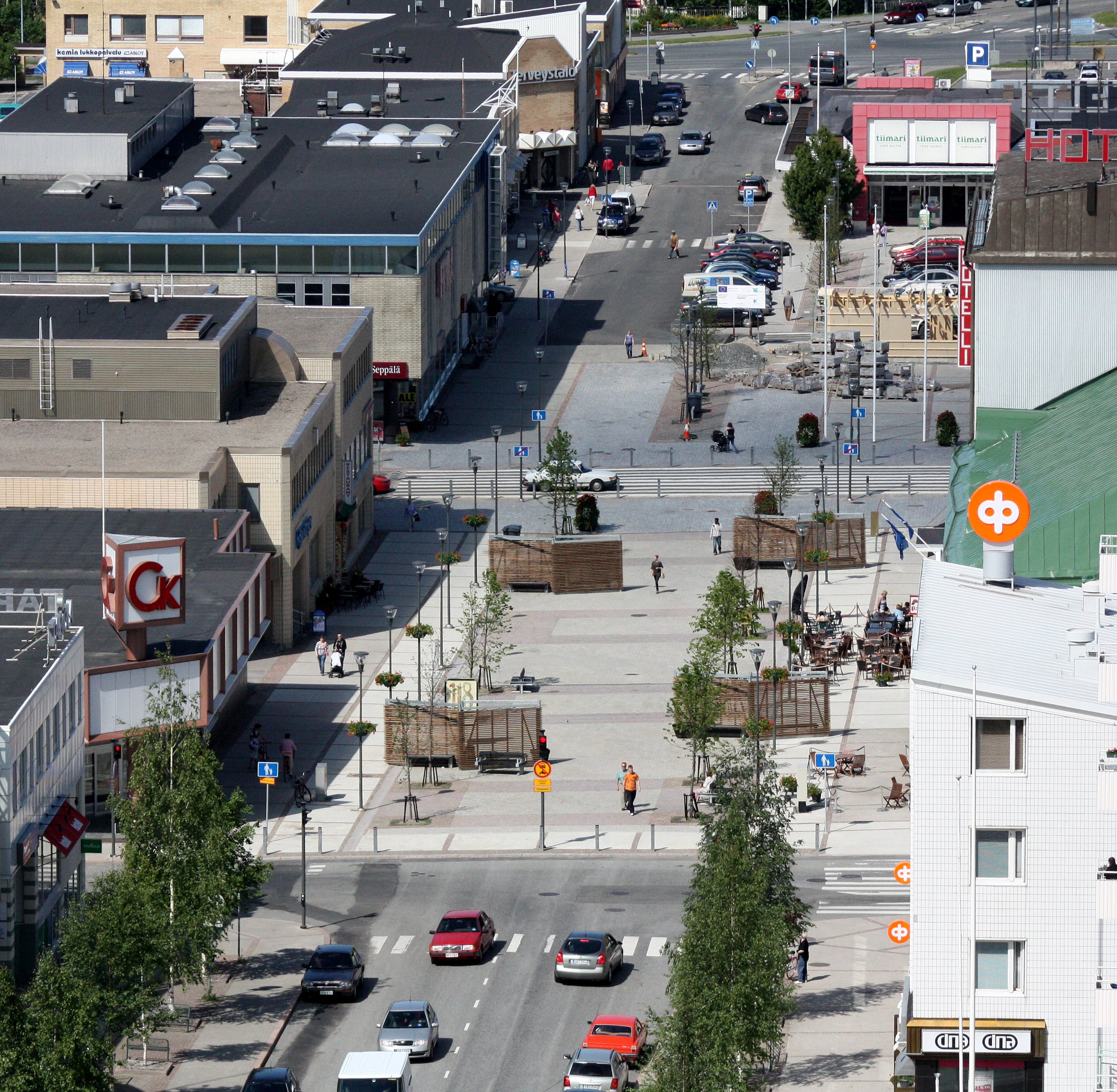 A pedestrian zone on Valtakatu street in Kemi, Finland.